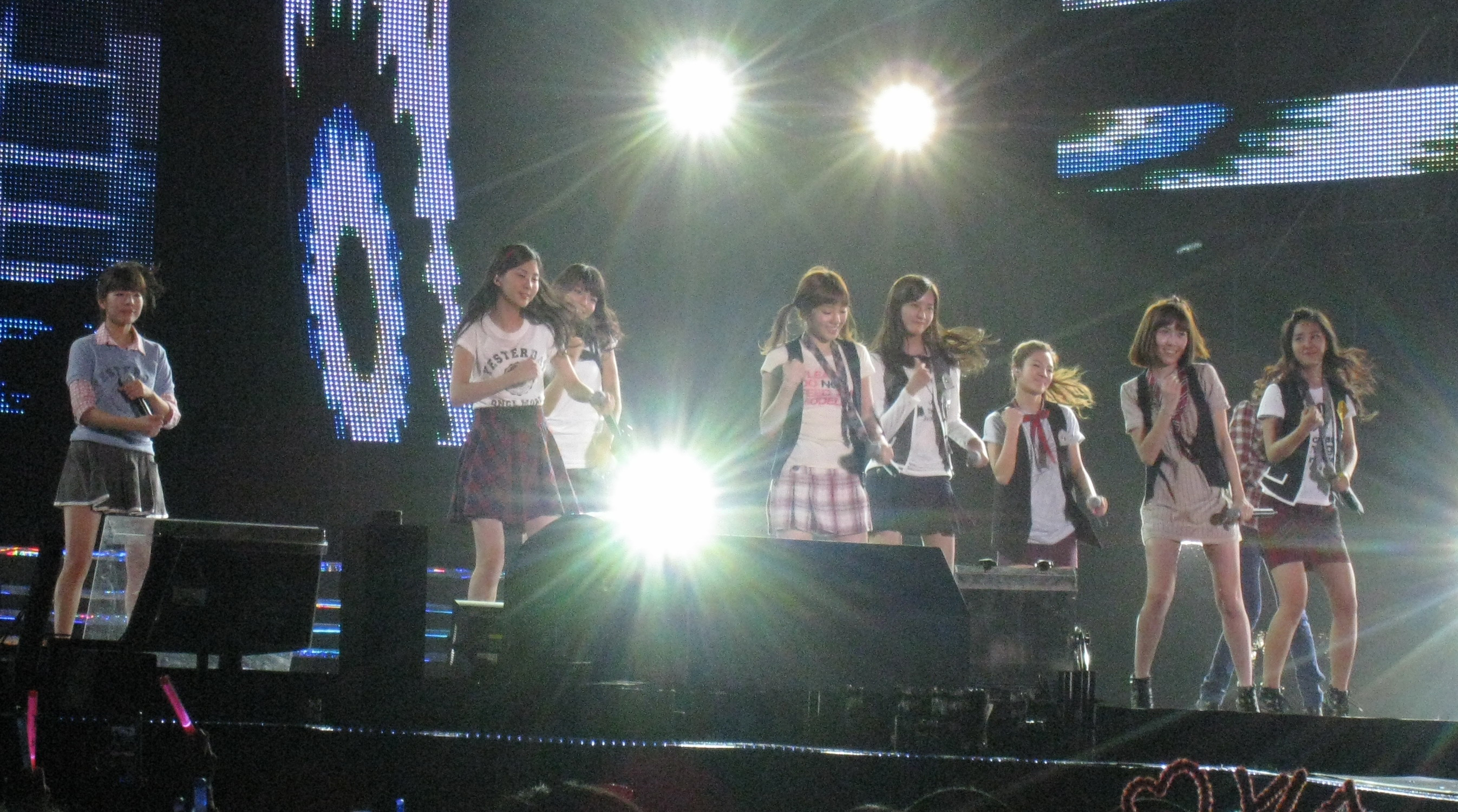 Girls' Generation Live at SMTOWN Live in Bangkok. Left to right: Sunny, Seohyun, Sooyoung, Taeyeon, Yoona, Hyoyeon, Jessica, Yuri, Tiffany